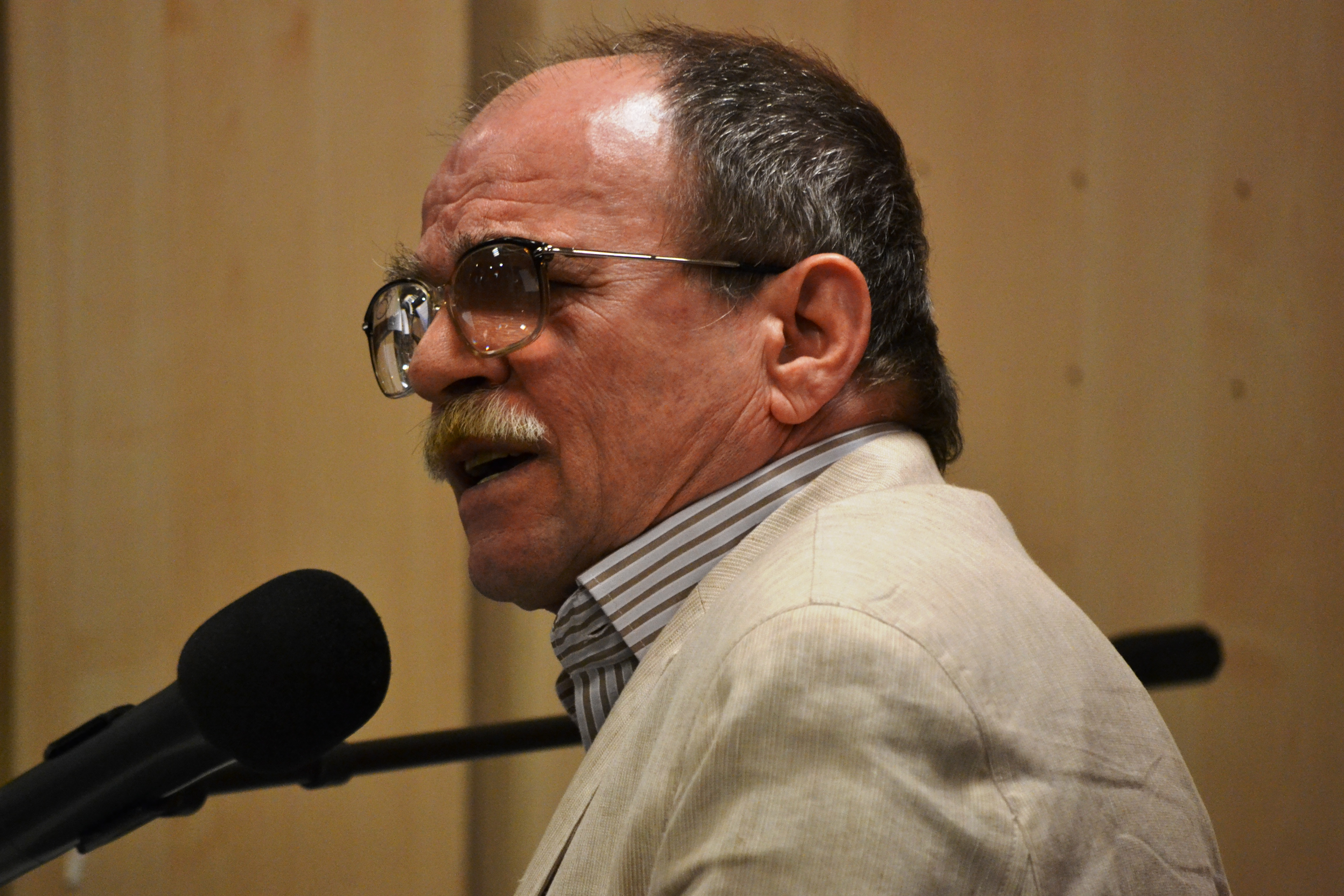 Jaroslav Uhlíř, Czech composer, actor, vocalist, pianist and entertainer